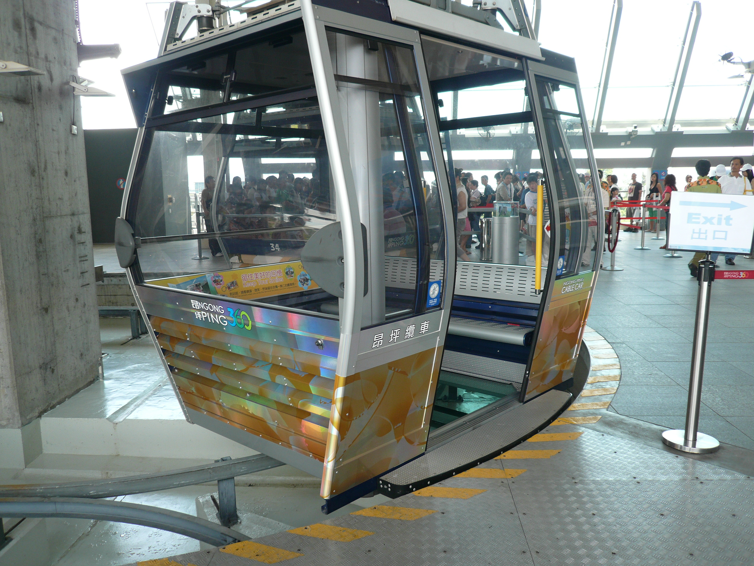 crystal cabin yellow color